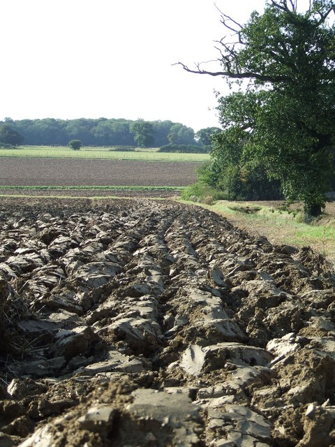 Heavy soil Heavy clay soil near to Saxmundham Suffolk.